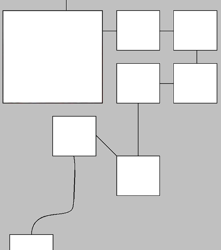 In the late 1990s and early 2000s, cartoonist Scott McCloud suggested that "Trails" may be the future of webcomics. Because of the medium's infinite canvas, webcomics allow unusual mapping of a page compared to traditional comics. A logical conclusion would be to use linking lines between panels, so that the space between panels could be used for pacing or alternative graphics. McCloud went in more detail in his 2000 comic blog I Can't Stop Thinking, more specifically in "Follow that Trail!".